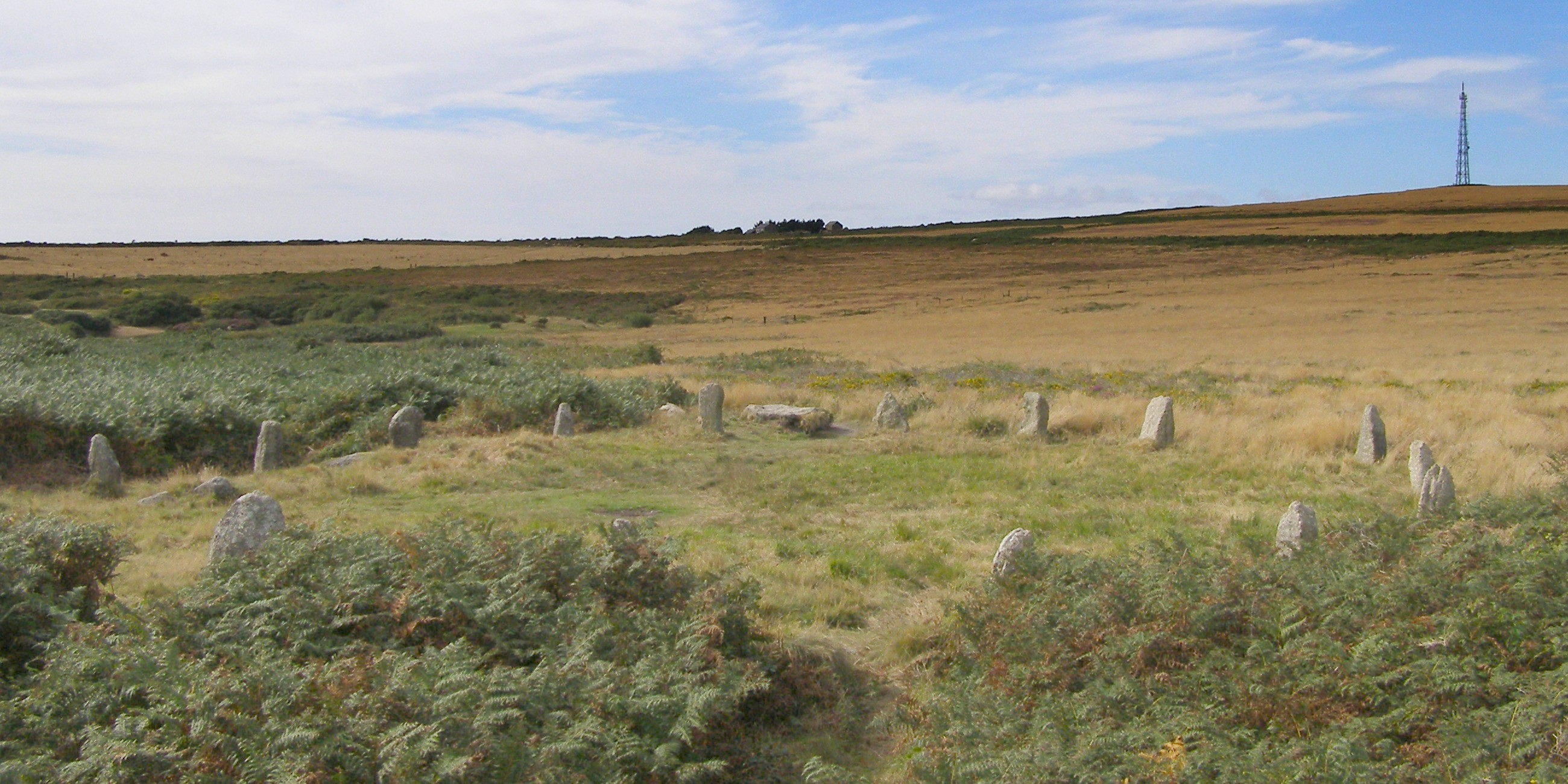 Tregeseal East stone circle, looking towards the west, near St Just in Penwith, Cornwall